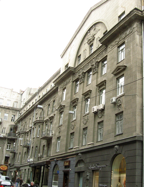 House in Kiev where Viktor Nekrasov lived in 1950-1974